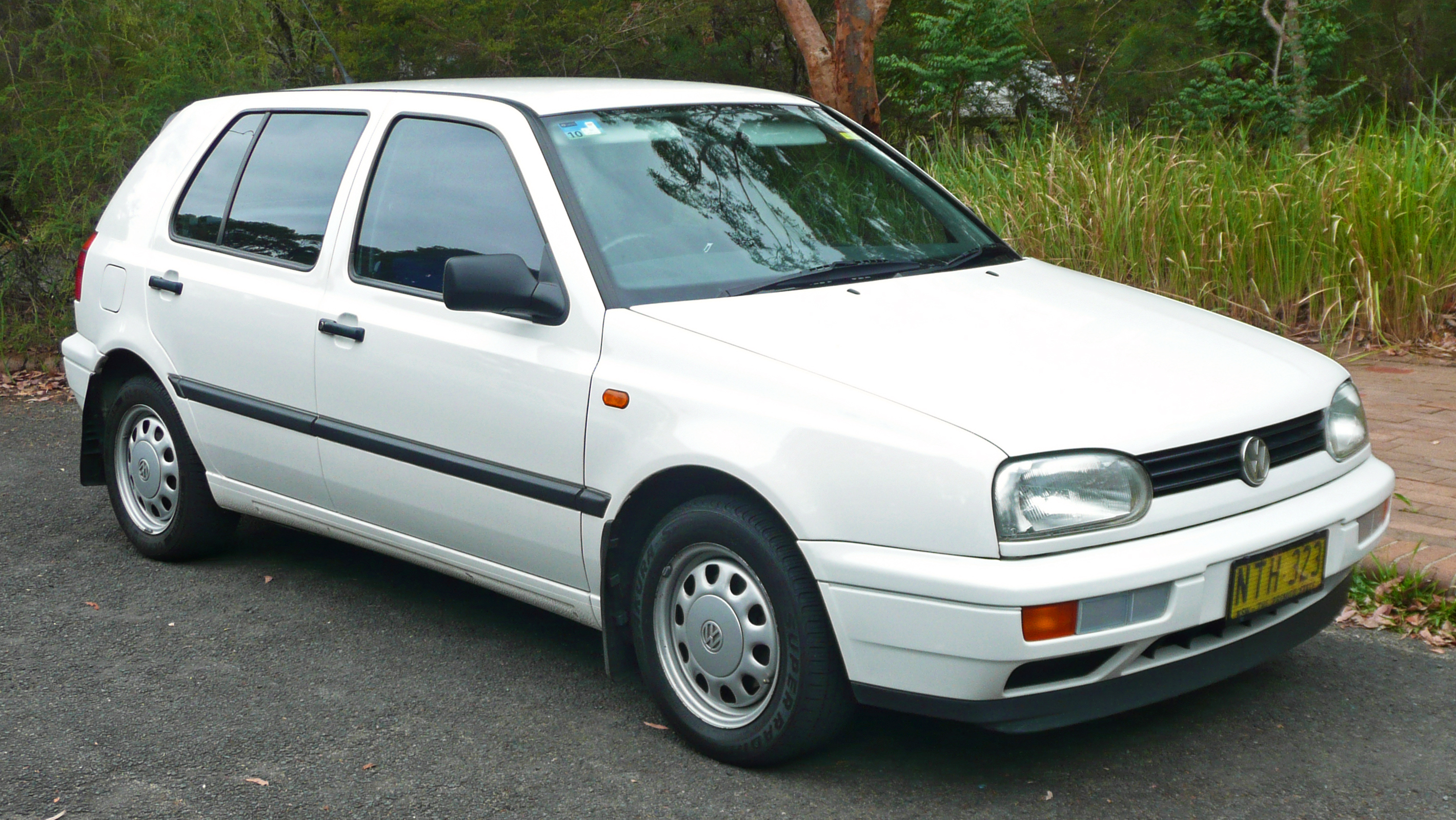 1998 Volkswagen Golf (1H) CL 5-door hatchback. Photographed in Audley, New South Wales, Australia.